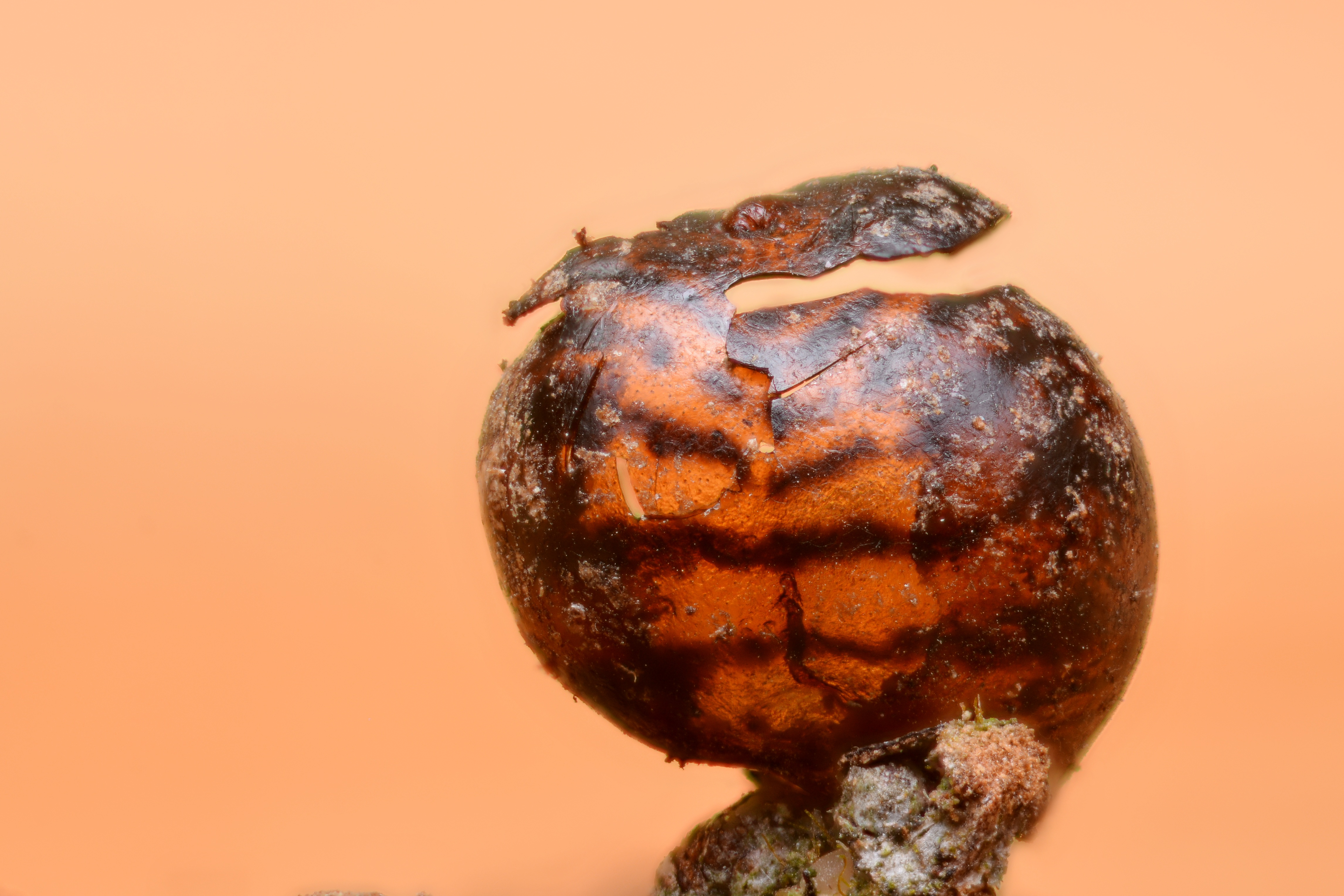 Scale insect, Kermes cfr quercus (Hemiptera - Coccoidea - Kermesidae) on Quercus robur bark at the base of young shoots.